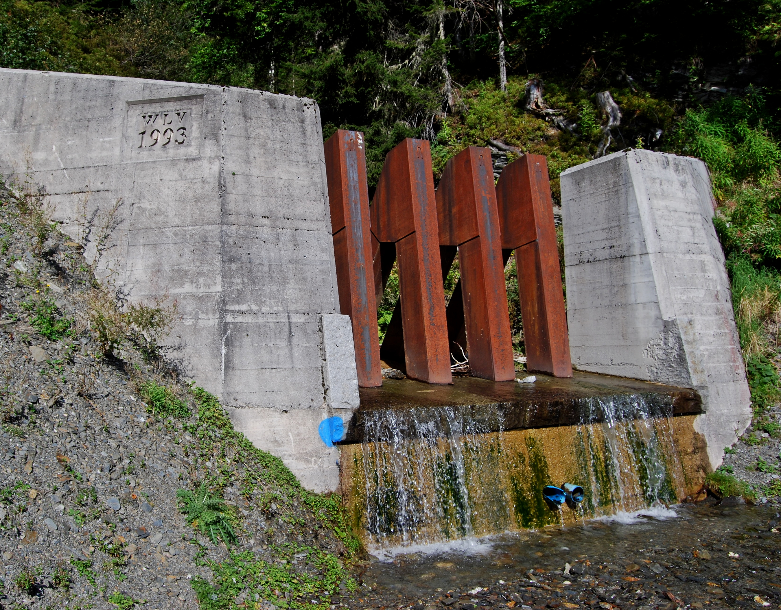 a debris flow barrier in the state of Salzburg, Austria